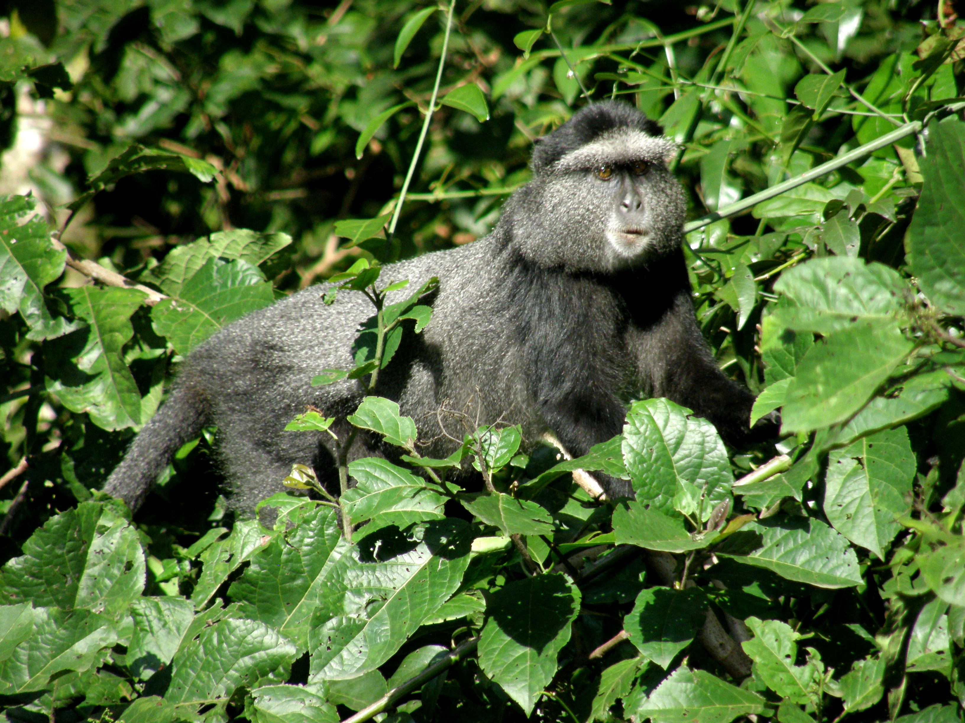 Monkey climbing in tree at Kagamega Rain Forest